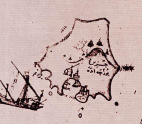 The map was drawn by Ottoman cartographer Piri Reis during 16th century. I've found it in an Italian web site: It is flipped for correct orientation and cropped to show the island alone. Filanca 11:46, 10 December 2006 (UTC)